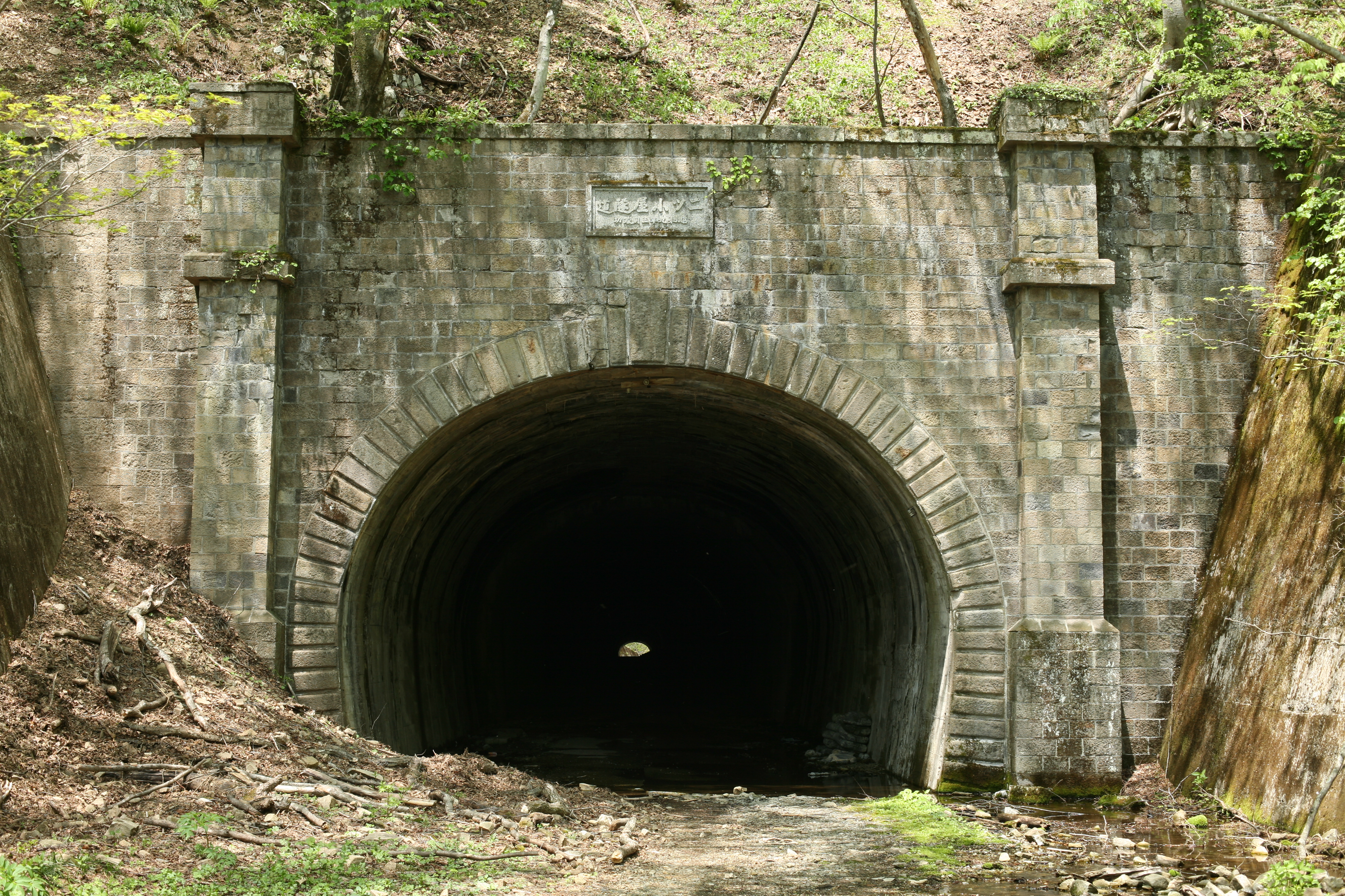 Former Route 13,Futatsugoya tunnel,Fukushima side portal.Now almost obsoleted.